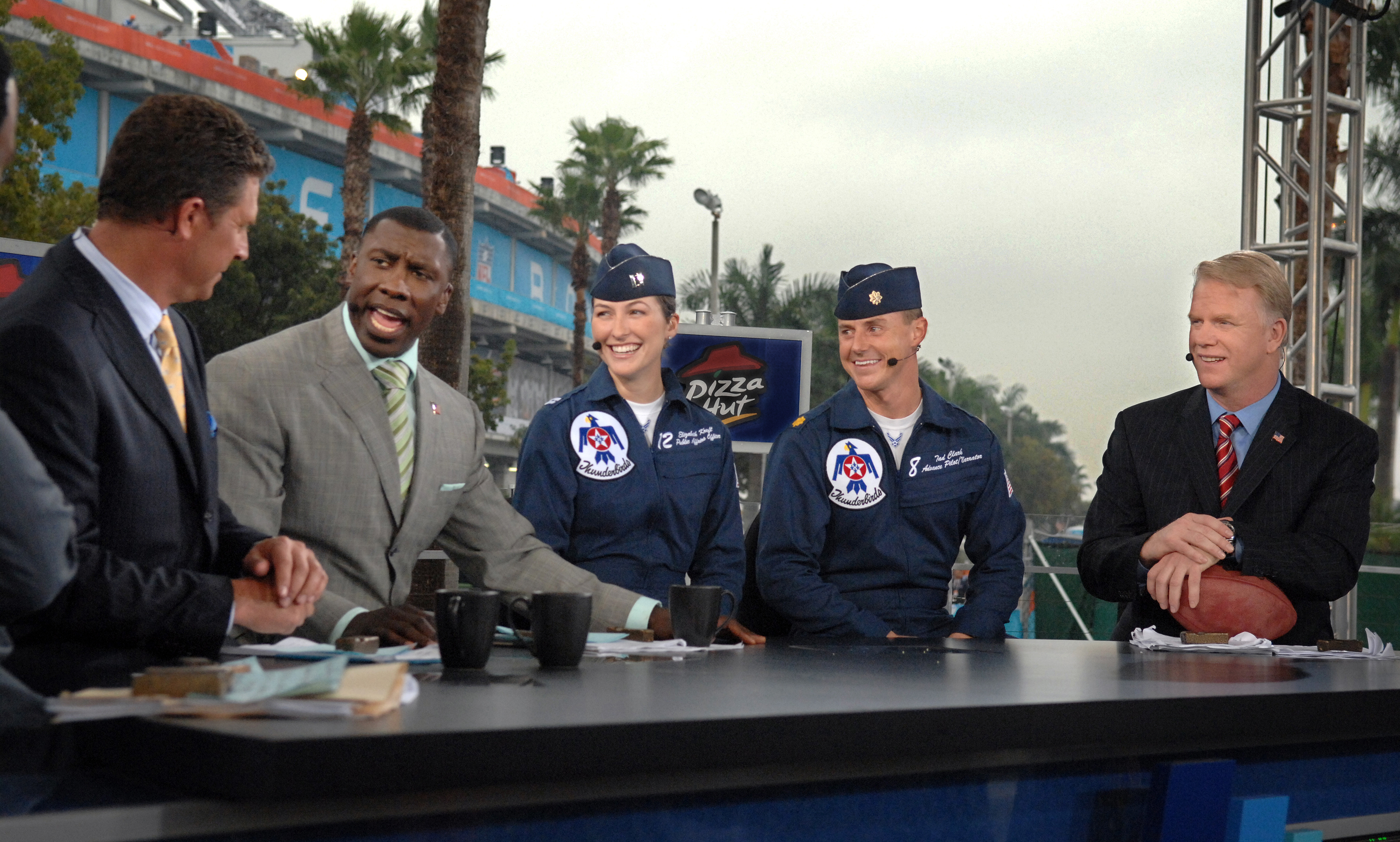 Capt. Elizabeth Kreft, the Air Force Thunderbird team's public affairs officer, and Maj. Tad Clark, the team's advance pilot and narrator, visit with The NFL Today's Dan Marino (from left), Shannon Sharpe and Boomer Esiason during the Super Bowl XLI pre-game show in Miami, Fla. VIRIN: 070204-F-7251M-906